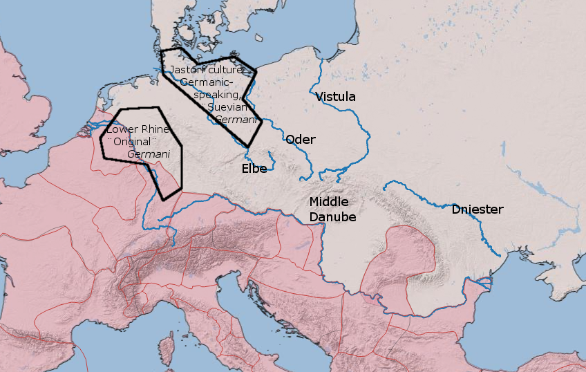 This is based upon the normal interpretations of Julius Caesar, Tacitus, and linguistic and archaeological evidence.